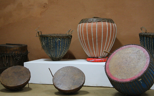 Percussion instruments are mentioned in the ancient Sanskrit text Natya Shastra. They have been common in classical Indian music and folk tribal music. Some look like tabla, but a detailed examination show some evolutionary differences.